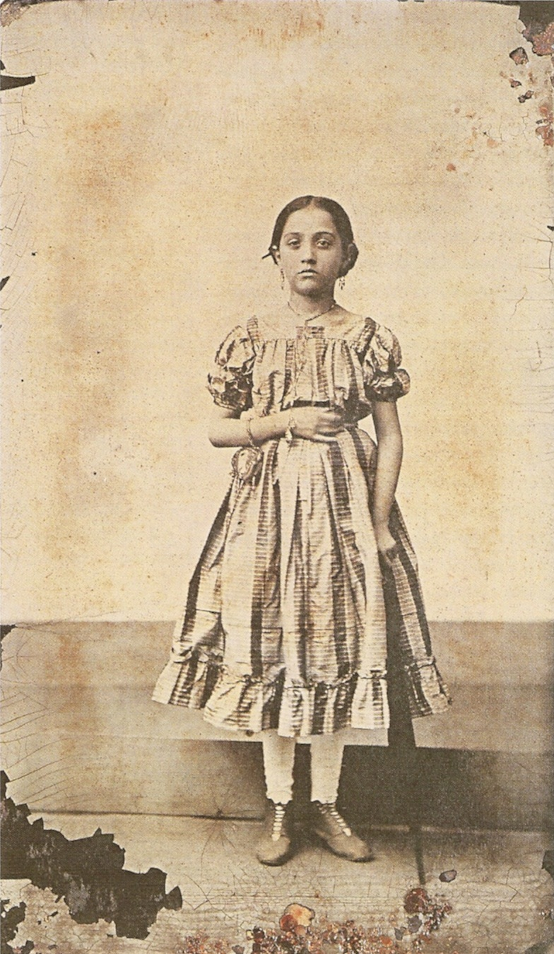 Unknown white girl in Rio de Janeiro city (Rio de Janeiro province), c.1870, by an unknown photographer